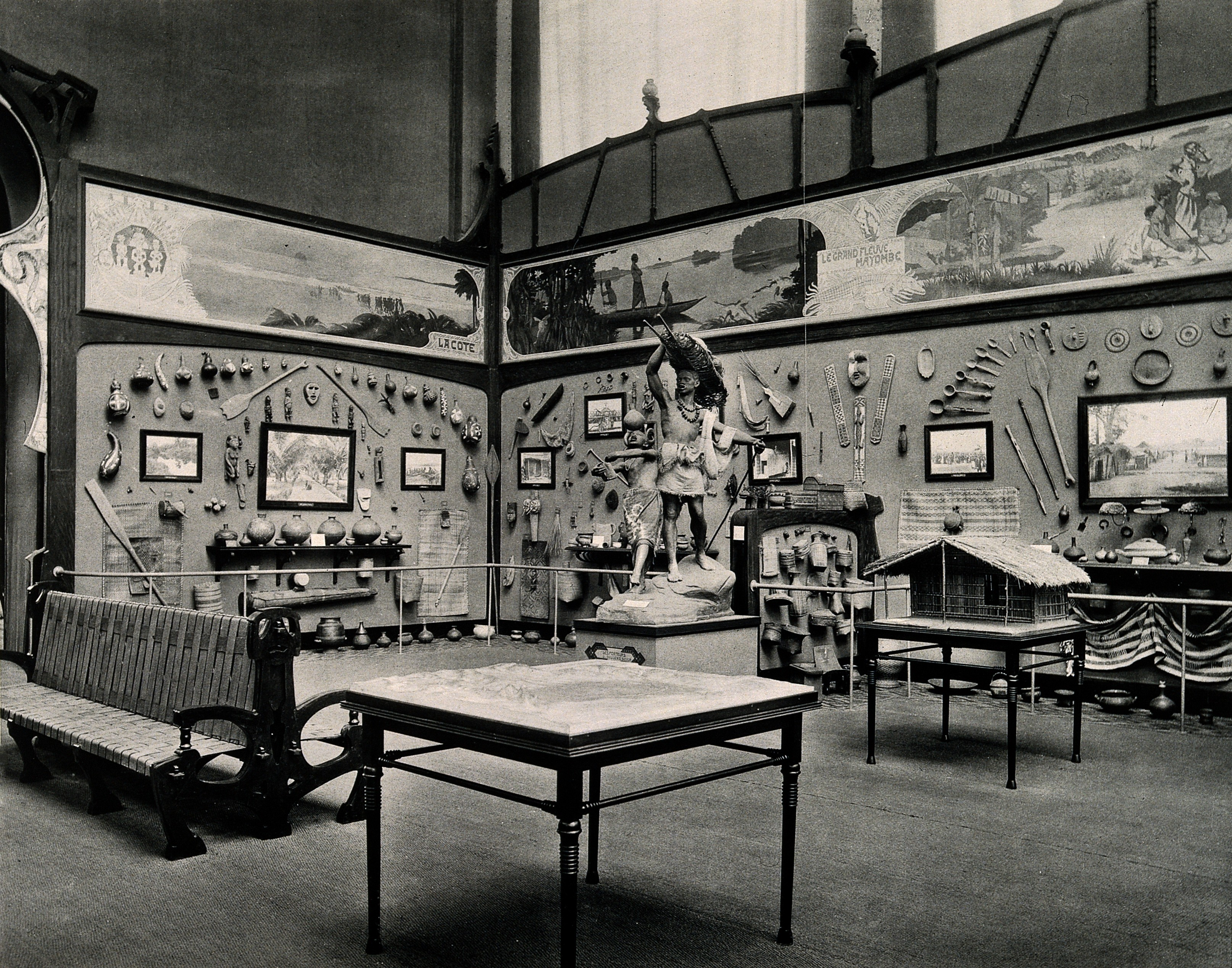 Musée du Congo, Tervuren, Belgium: one of five interior scenes. Collotype. Iconographic Collections Keywords: Musée du Congo (Tervuren, Belgium); Ethnology; Sociology; MUSEUM; hankar, paul 1859-1901, archit; Museums; Gustave Serrurier-Bovy; Paul Hankar